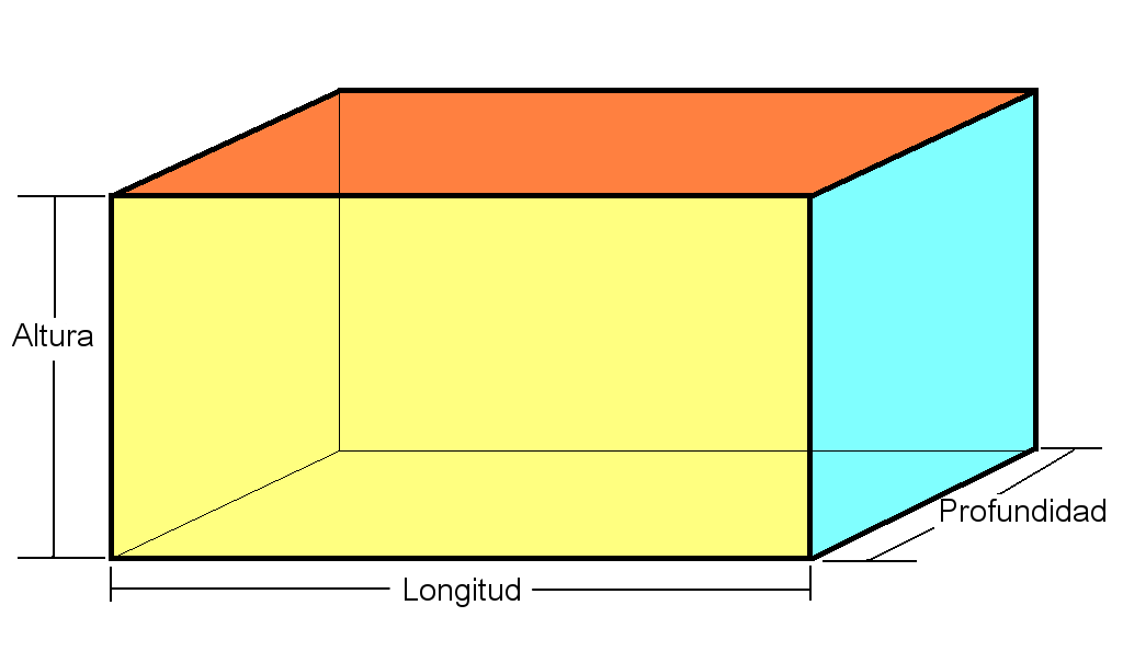 A cuboid.